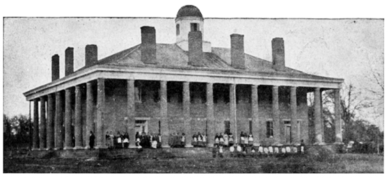 The First Cherokee Female Seminary built in 1851 burned down in 1887.